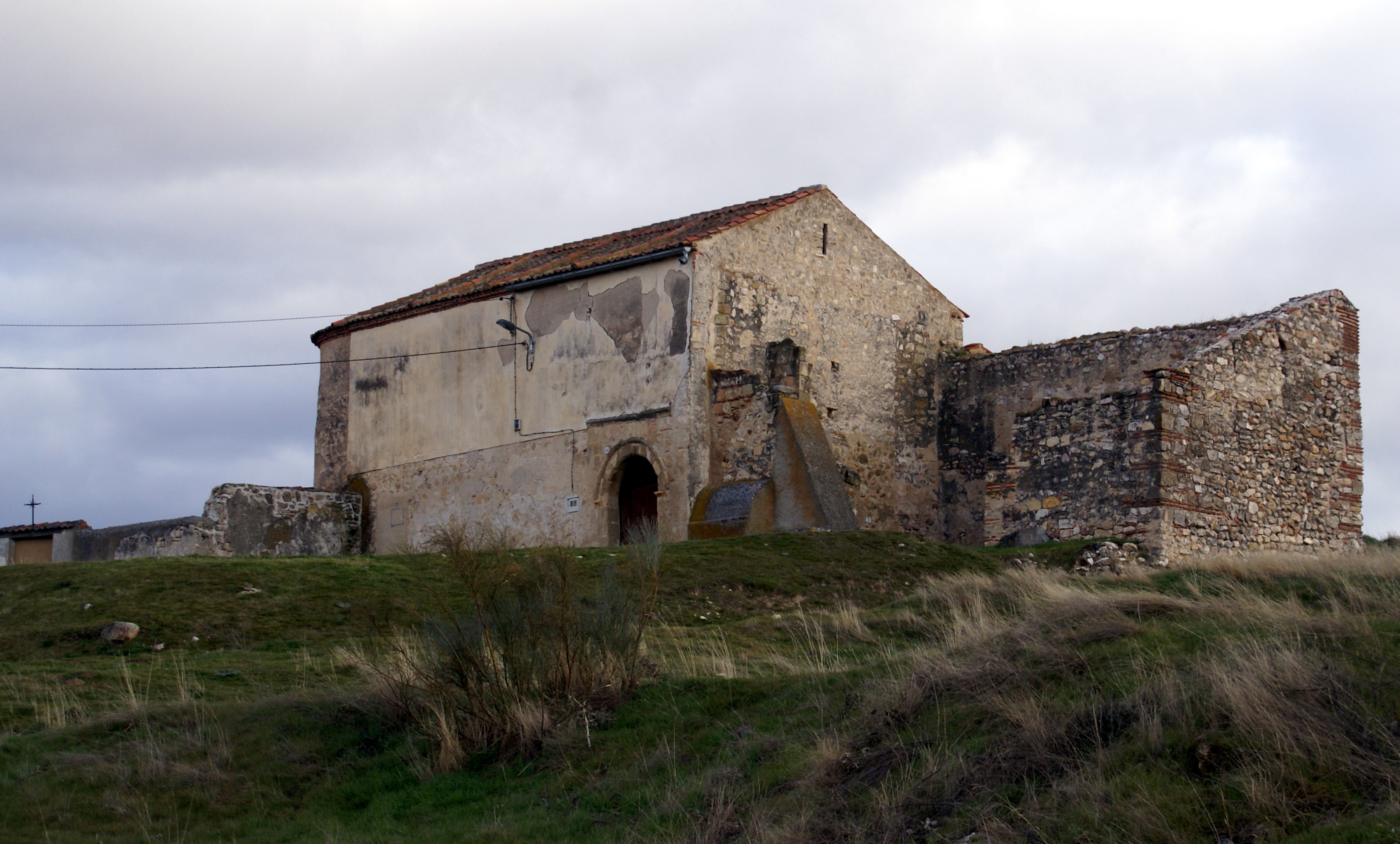 Church of St. Bartholomew in Torredondo, Segovia, Spain.